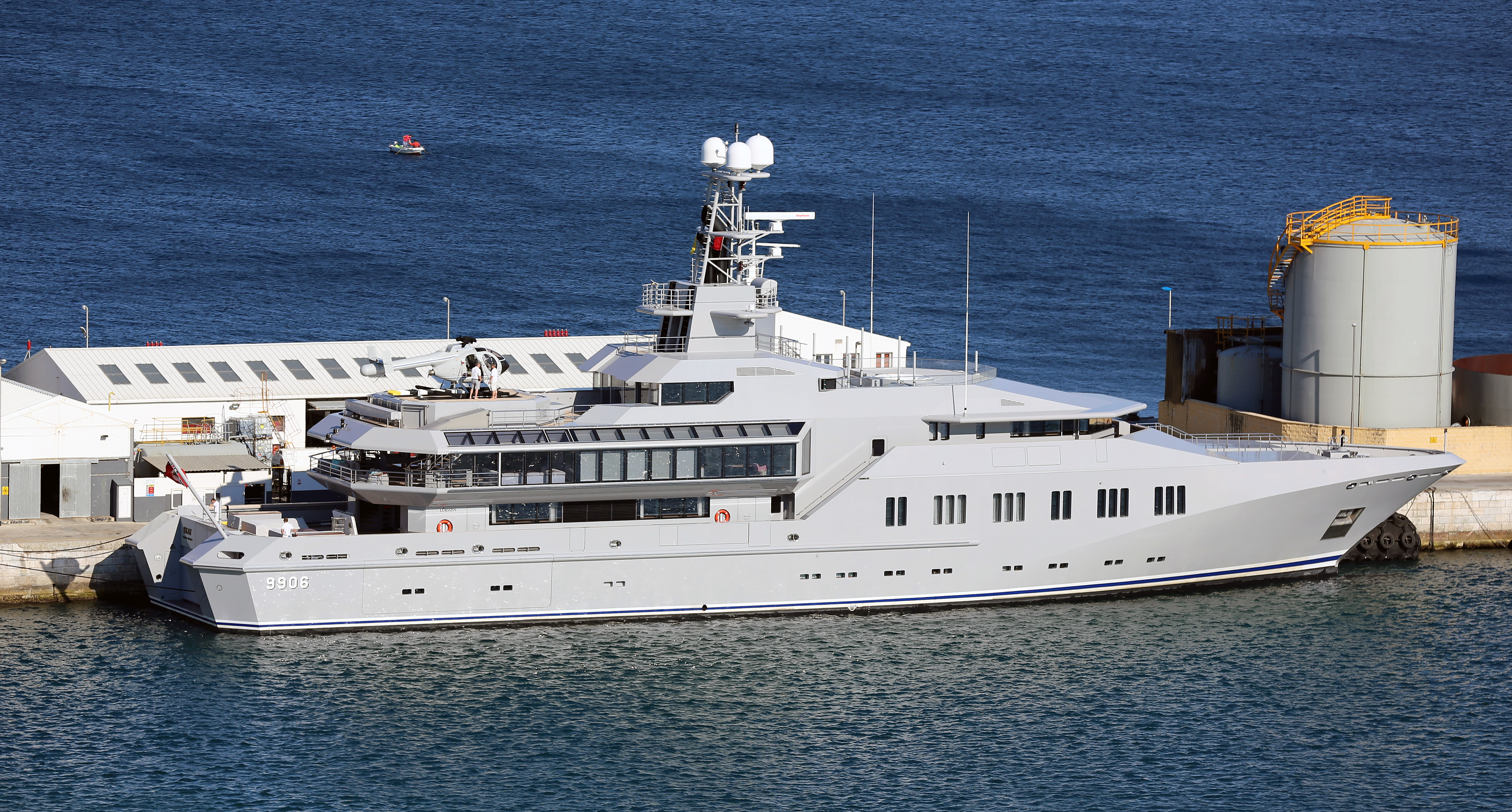 M/Y Skat is a luxury yacht built by Lürssen of Bremen, Germany as project 9906 being the number displayed on the hull in the style of military vessels. M/Y Skat is registered at George Town.